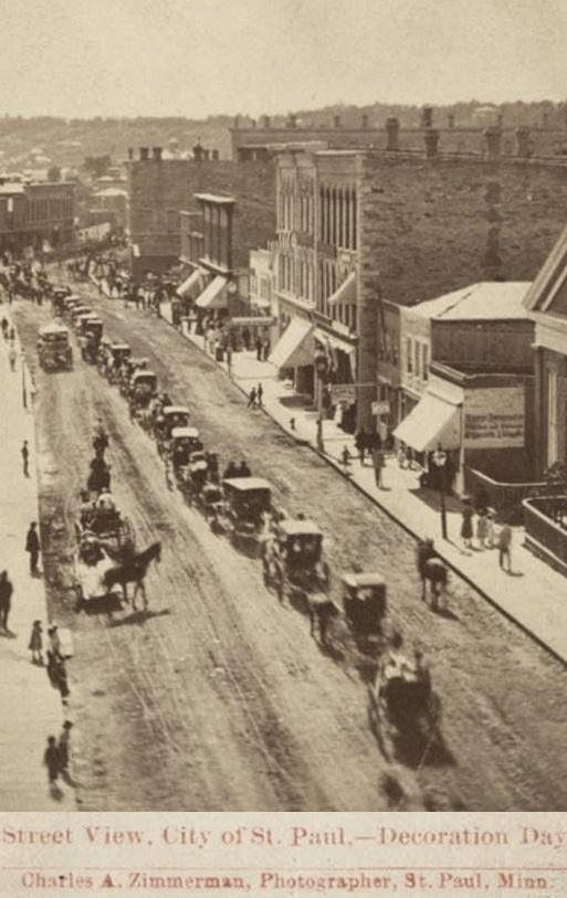 1870 photograph labeled "Street View, City of St. Paul.—Decoration Day" by Charles Alfred Zimmerman (June 31, 1844 - September 23, 1909) of St. Paul, Minnesota. This parade marked an observance which became known as Memorial Day in the United States.